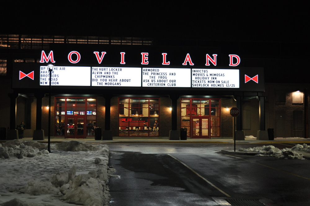 Movieland Theater in Richmond, Virginia's Three Corners District. The building is listed on the National Register of Historic Places as the Richmond Locomotive and Machine Works